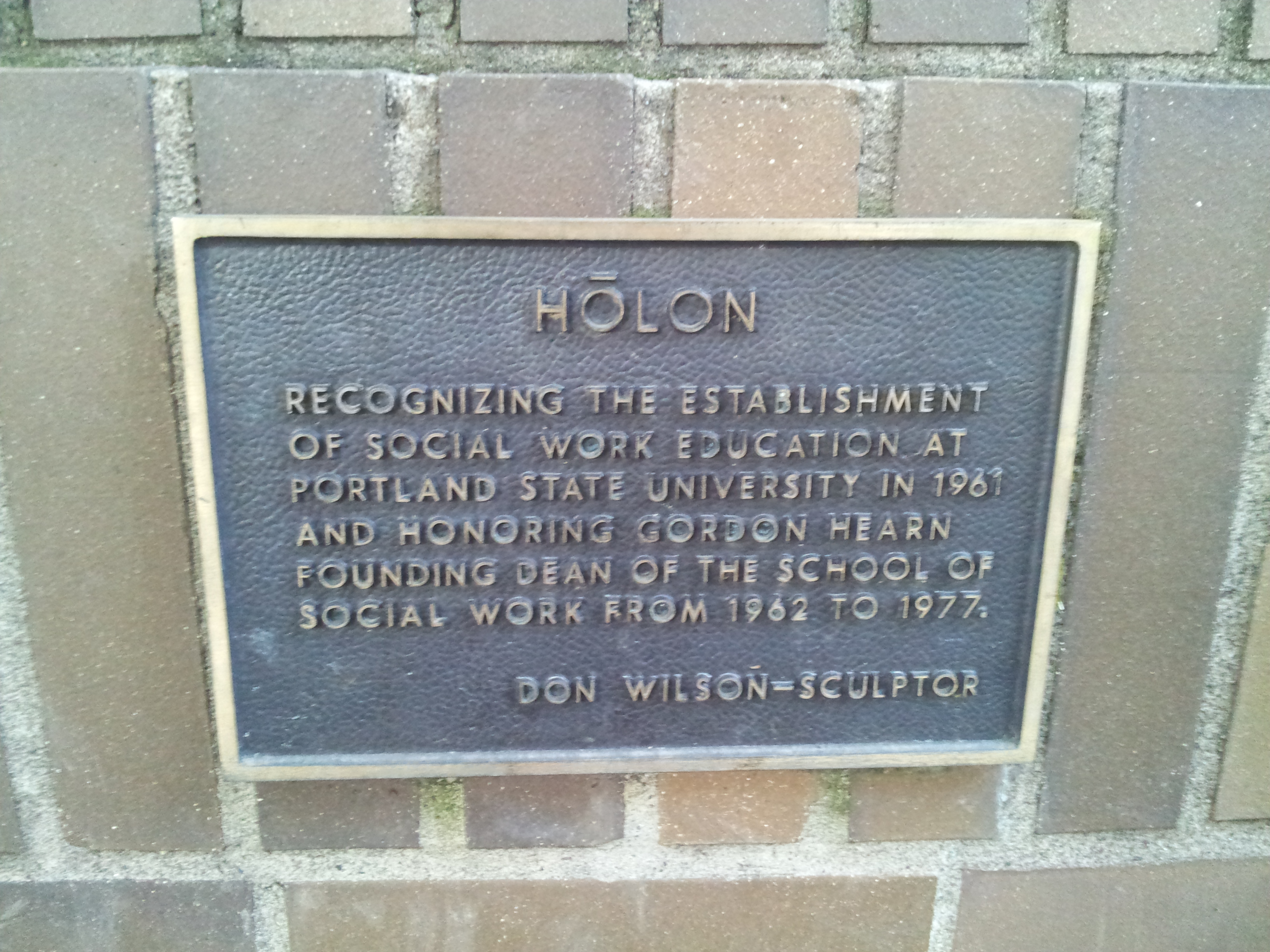 Plaque for Holon, a sculpture by Donald Wilson, located in the South Park Blocks (and on the Portland State University campus) in Portland, Oregon, United States